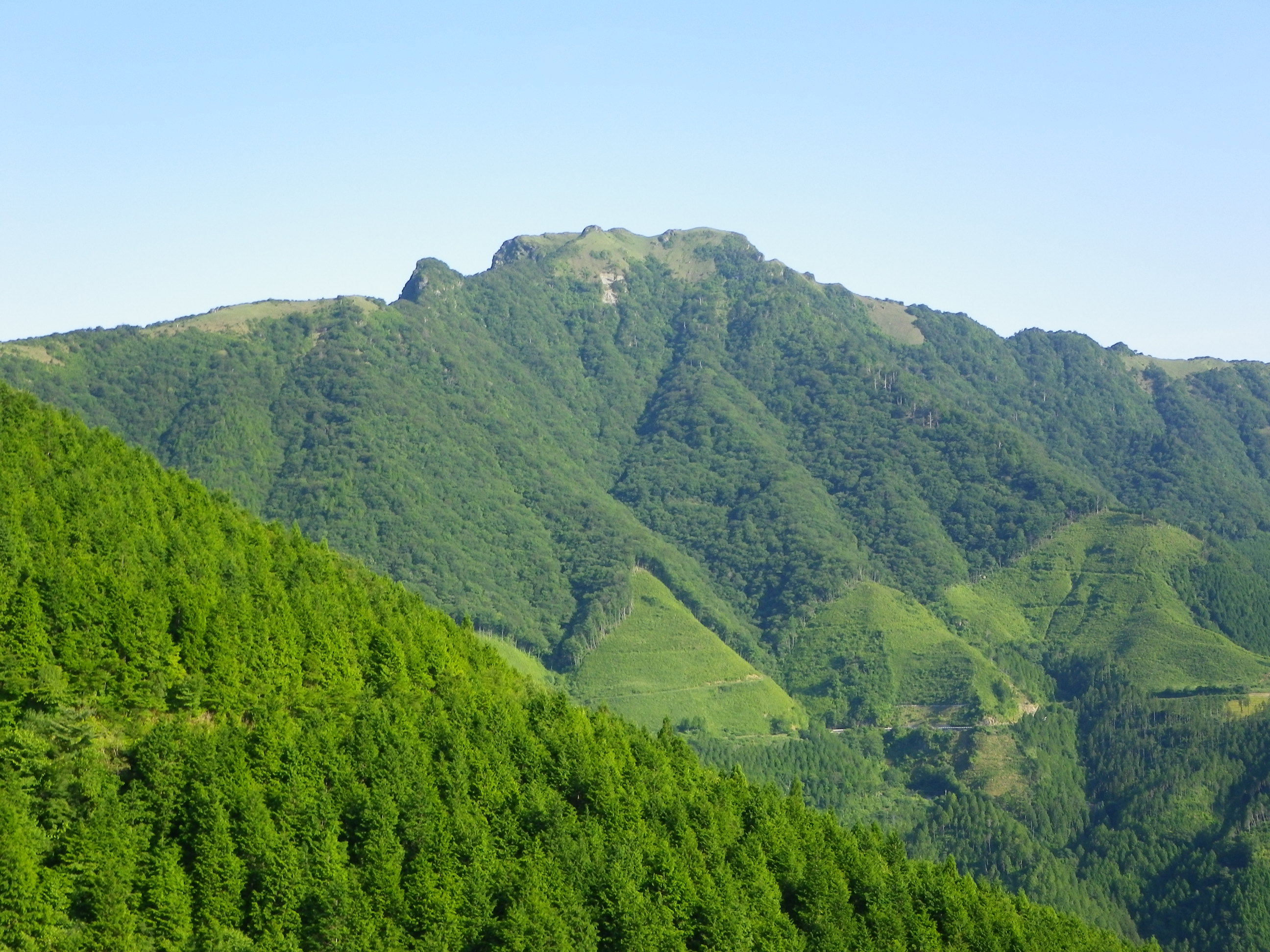 Mount Kanpu (Kanpuzan) as seen from the southeast